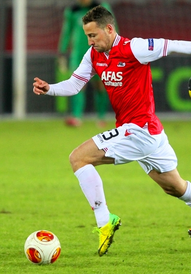 Roy Beerens